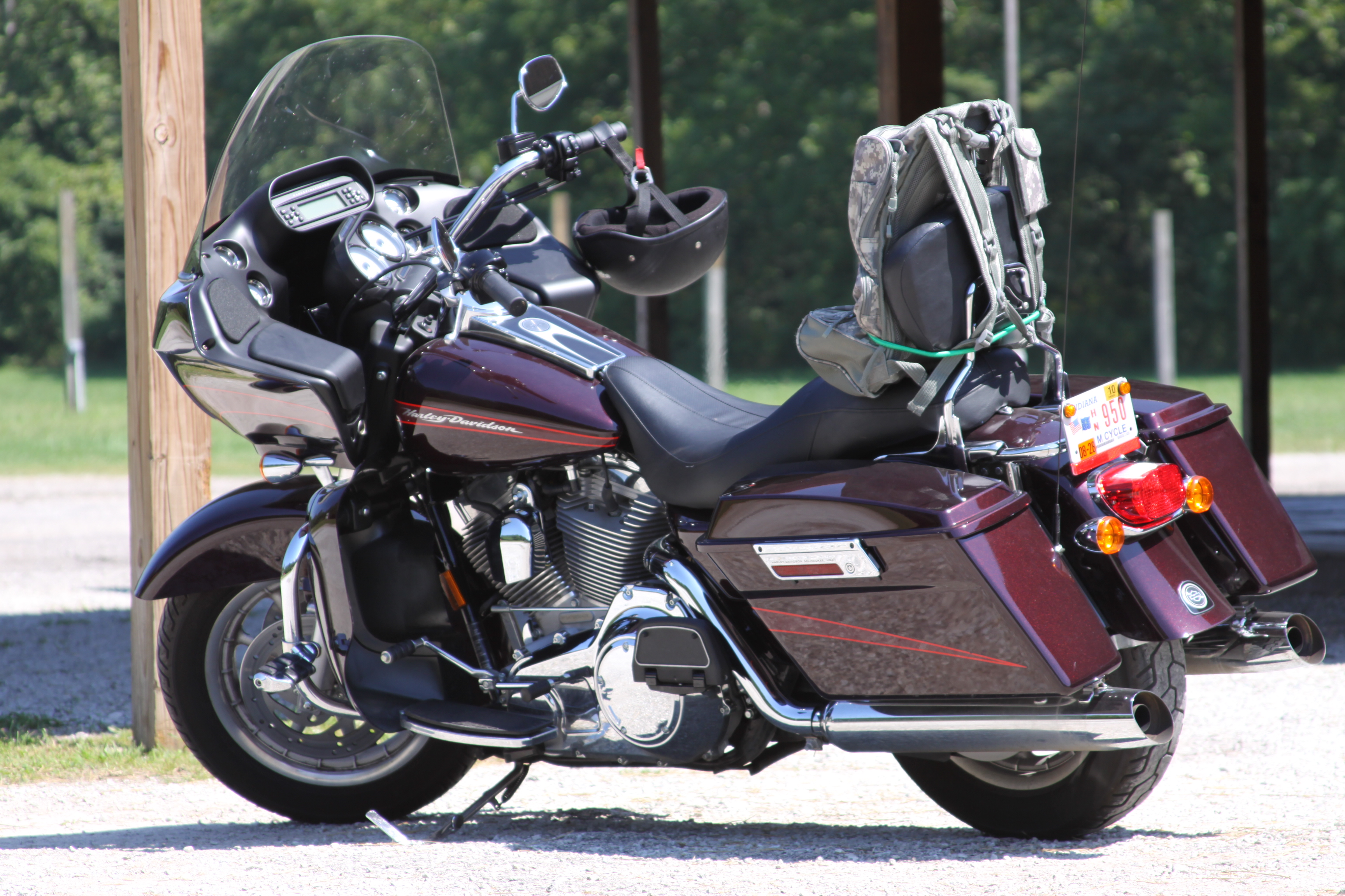 Harley-Davdison Road Glide. Southern Indiana former Country Dance Hall.